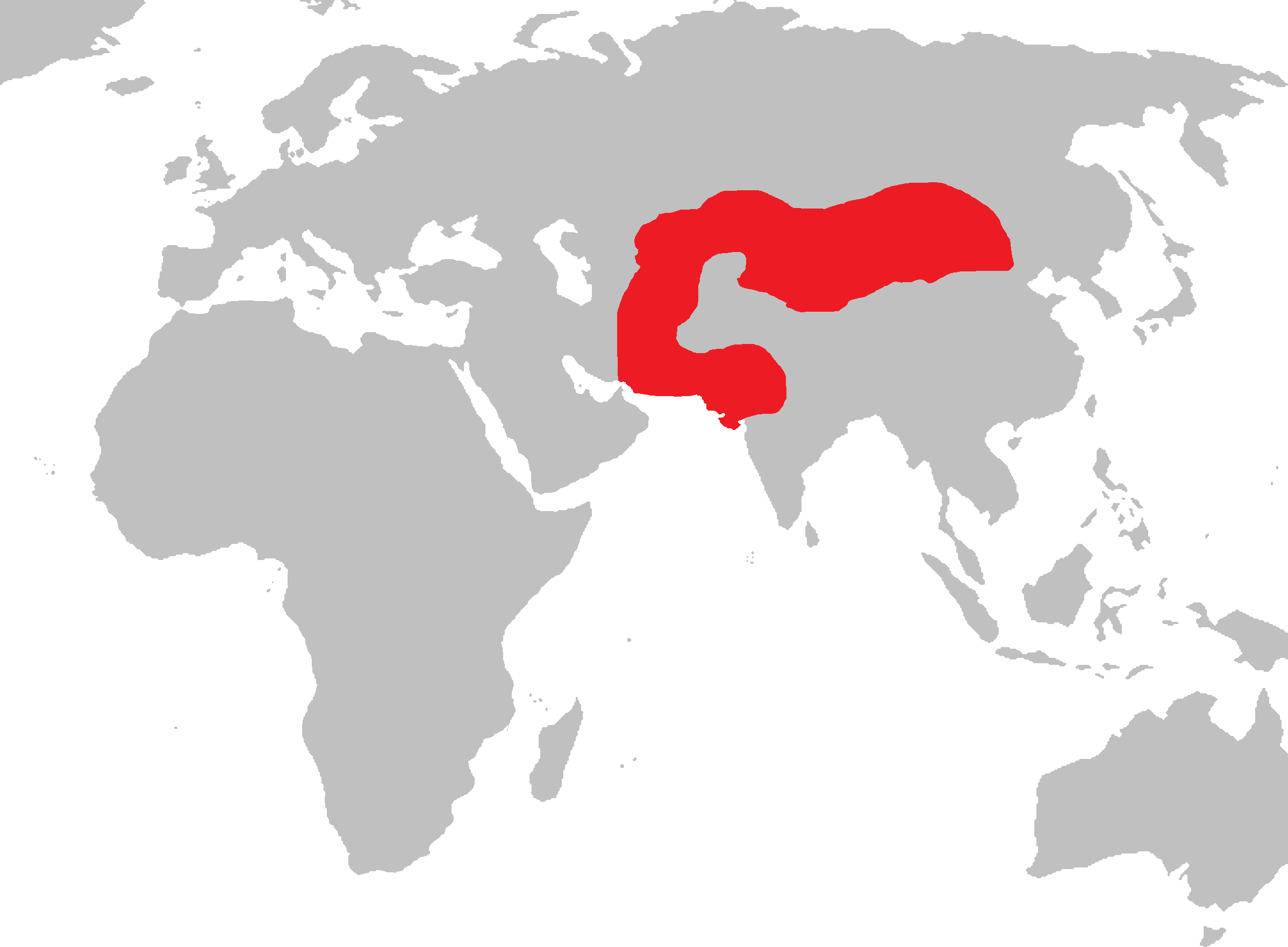 Distribution of Asiatic wildcat (Felis silvestris ornata)